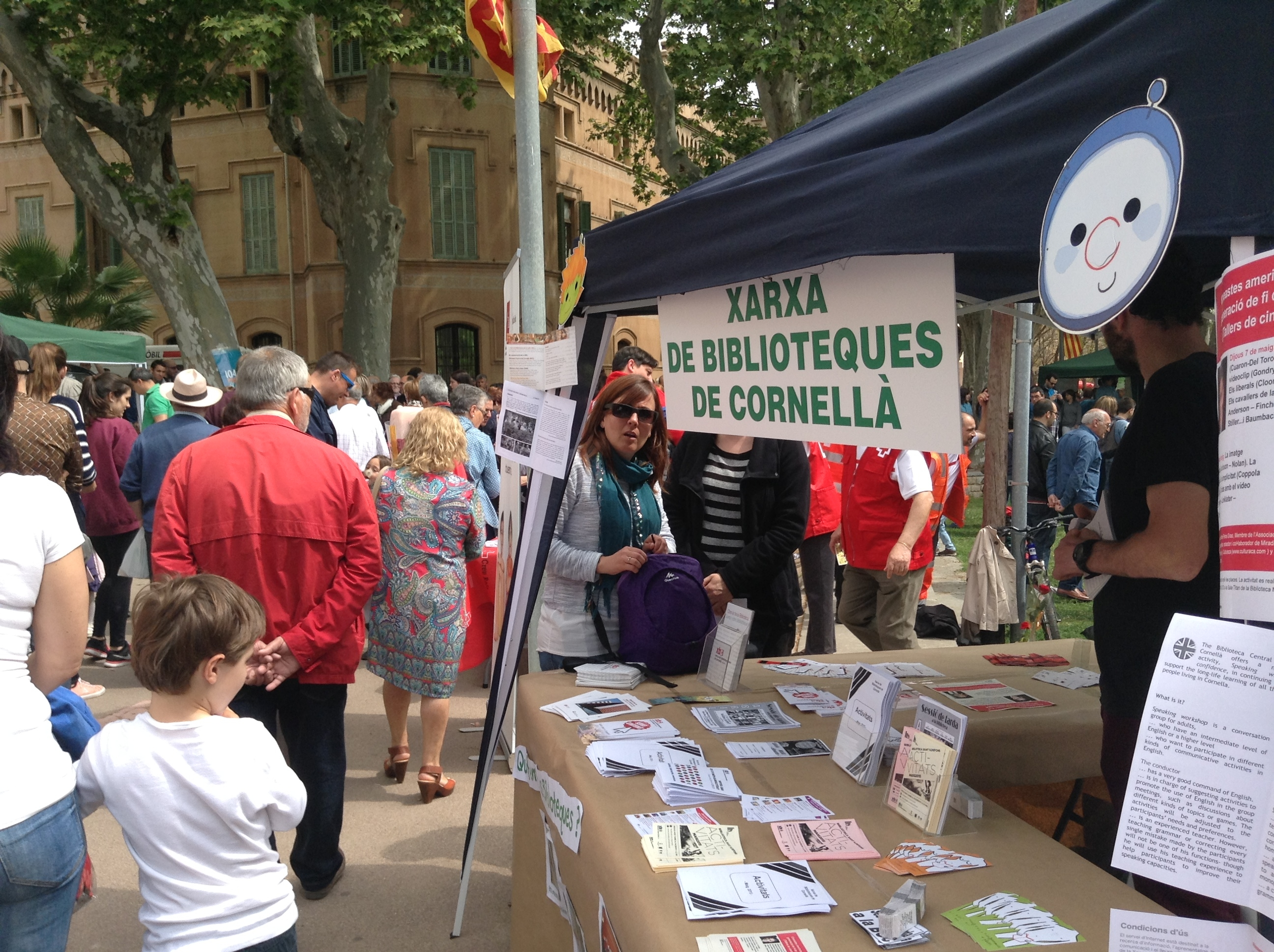 Jordiada a Cornellà de Llobregat